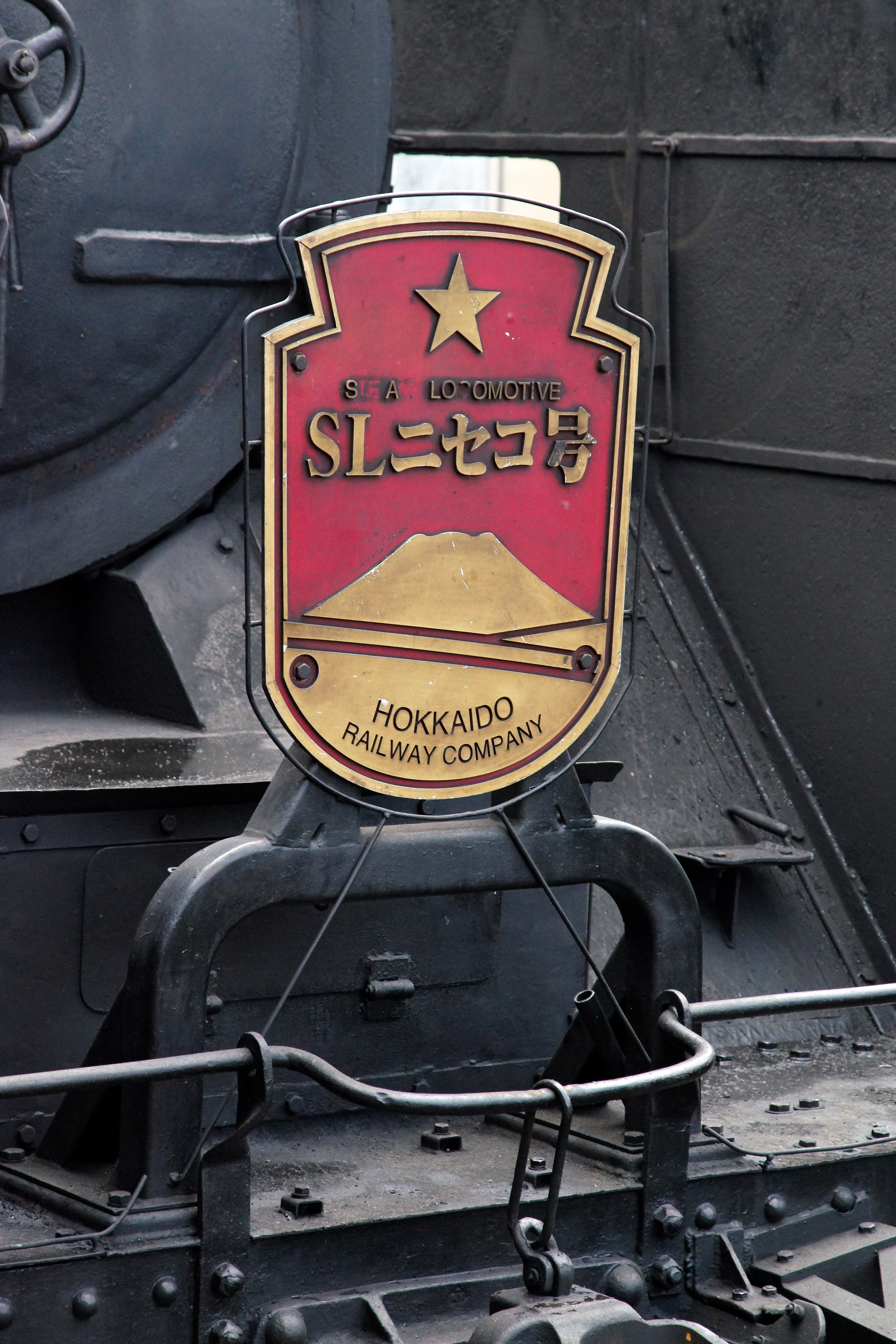 Otaru Station in Otaru, Hokkaido prefecture, Japan